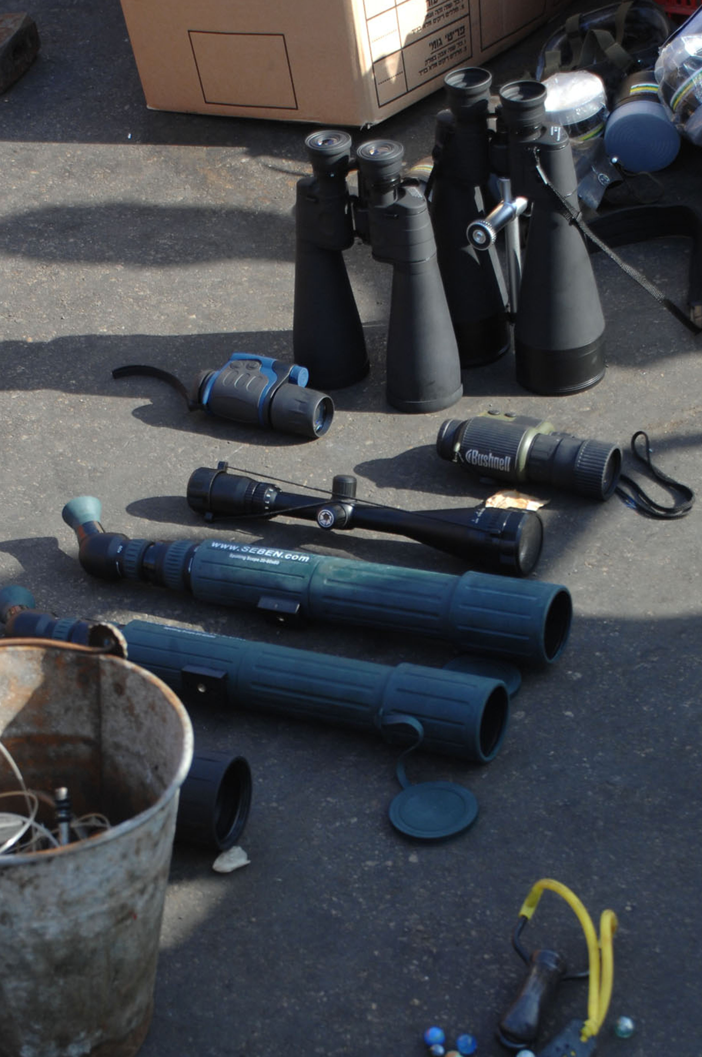 IDF soldiers who boarded the Mavi Marmara ship in order to enforce the maritime closure on Gaza, were met with a violent mob armed with clubs, slingshots, saws, knives, and used live fire against the IDF soldiers. Pictured here: Night vision binoculars found on the deck of the Mavi Marmara, along with a scope to be mounted on a sniper rifle. For more information: wp.me/ppbEs-rM